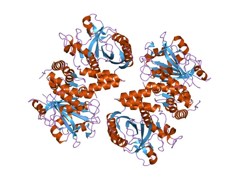 Cartoon representation of the molecular structure of protein registered with 1hyn code.